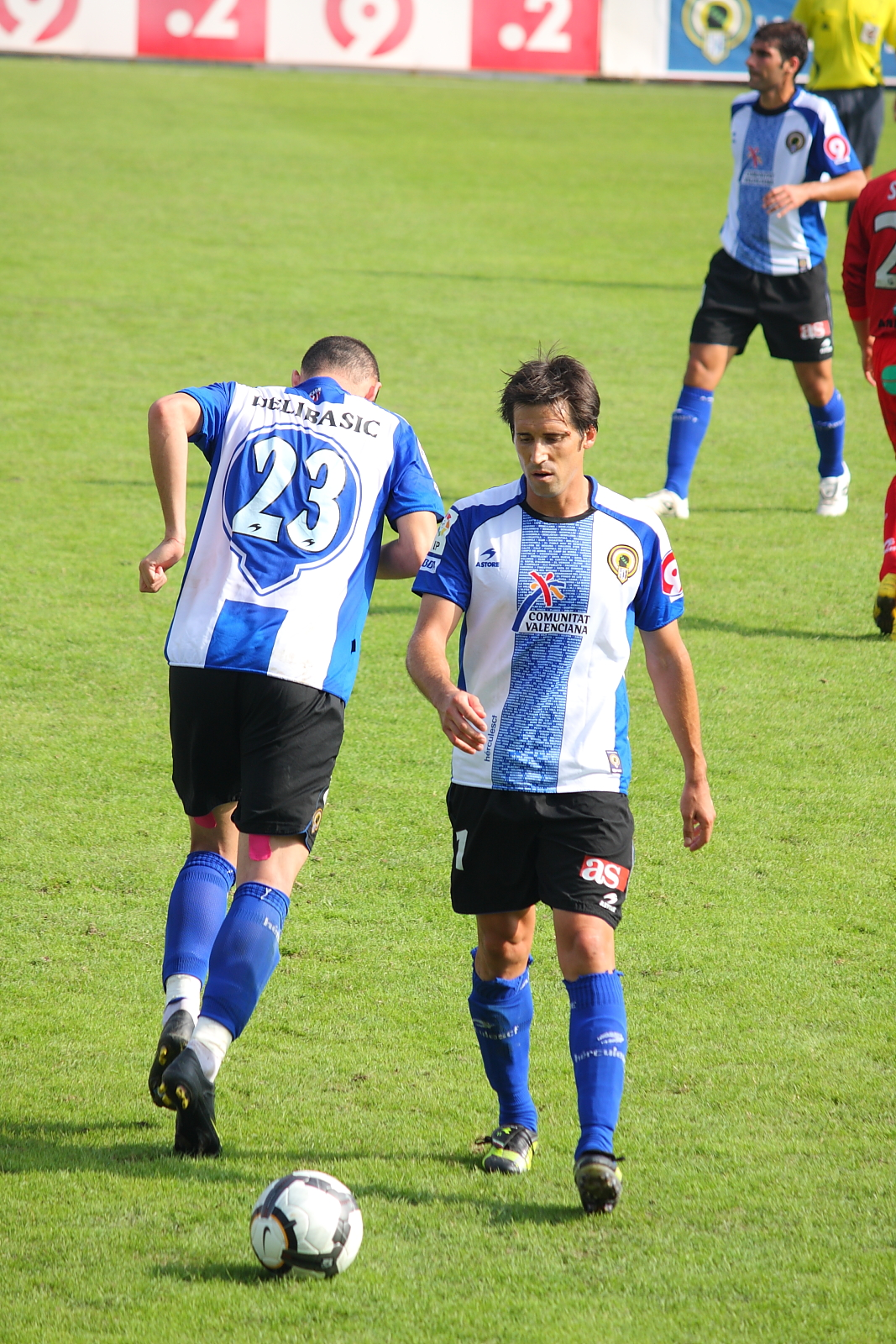 Sendoa Agirre (foreground), with Andrija Delibašić (back wearing the number 23 back) and Rodri Gimeno (background in the background) in the Hércules-Real Sociedad of the Second Division, held at the José Rico Perez Stadium November 1, 2009.